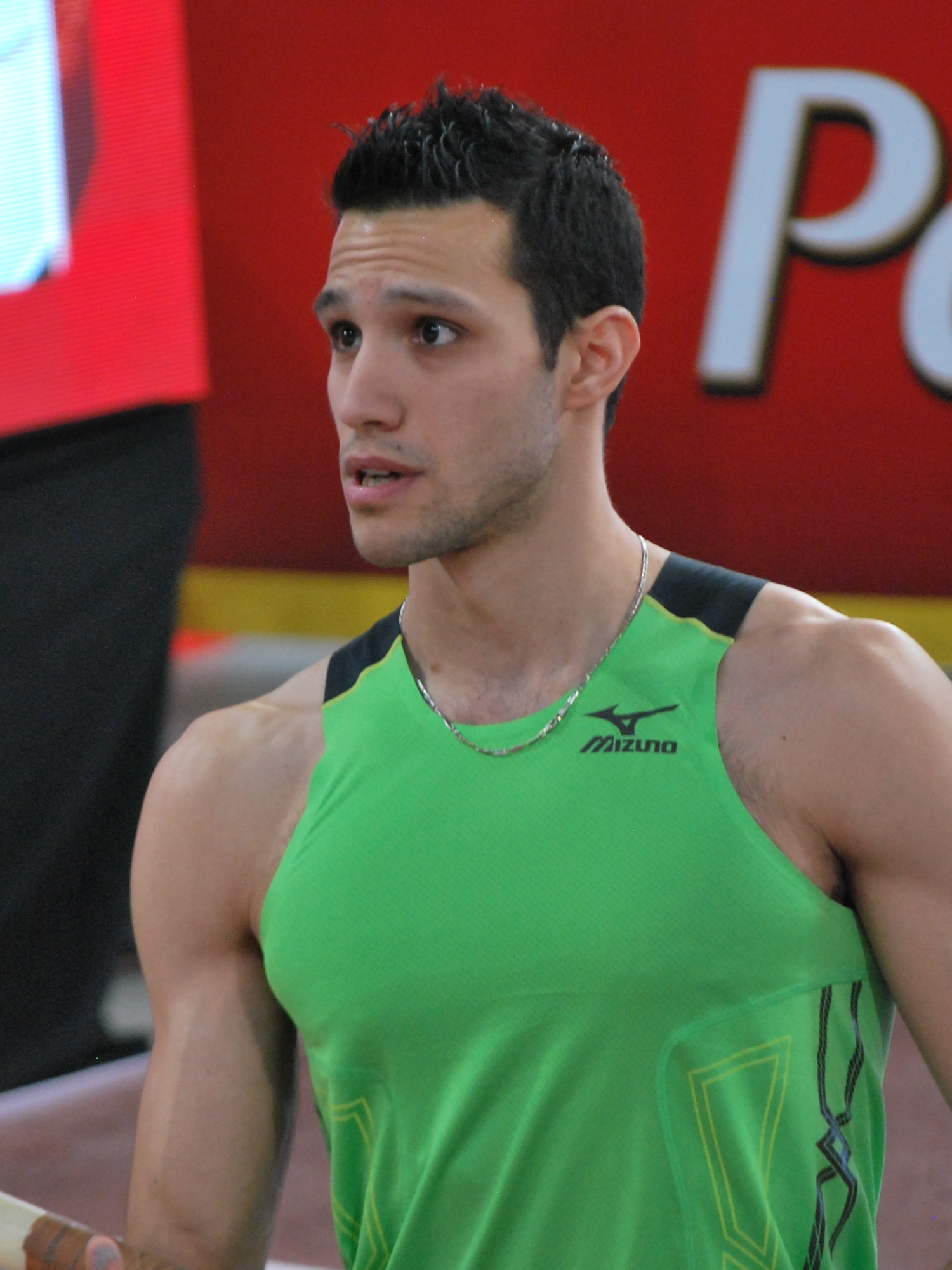 Pedros Cup 2015 Łódź, Konstadinos Filippidis, pole vaulter from Greece